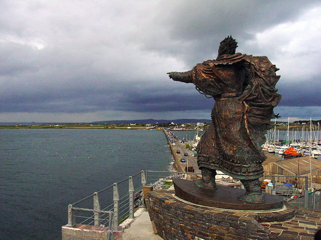 St. Brendan the Navigator. This modern statue to St Brendan stands on Samphire Island which can be reached by a causeway from Fenit.